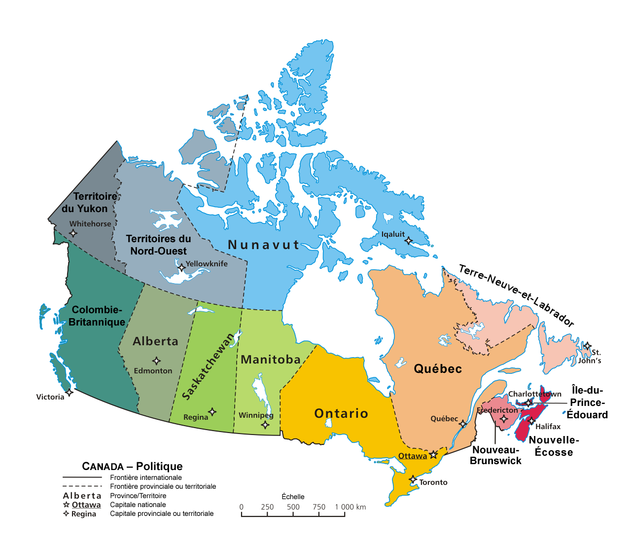 Political map of Canada in French